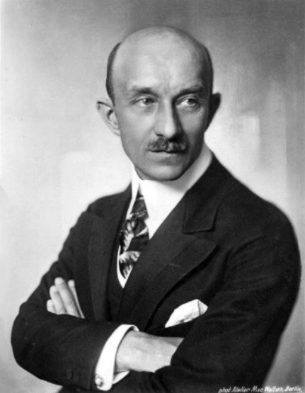 Portrait (postcard) of German actor Hans Junkermann (1872–1943) by Alexander Binder, Berlin.